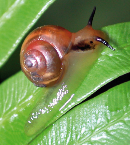 Photo of Alcadia conuloides.